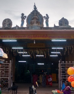 Valangaiman mariamman temple வலங்கைமான் மாரியம்மன் கோயில்